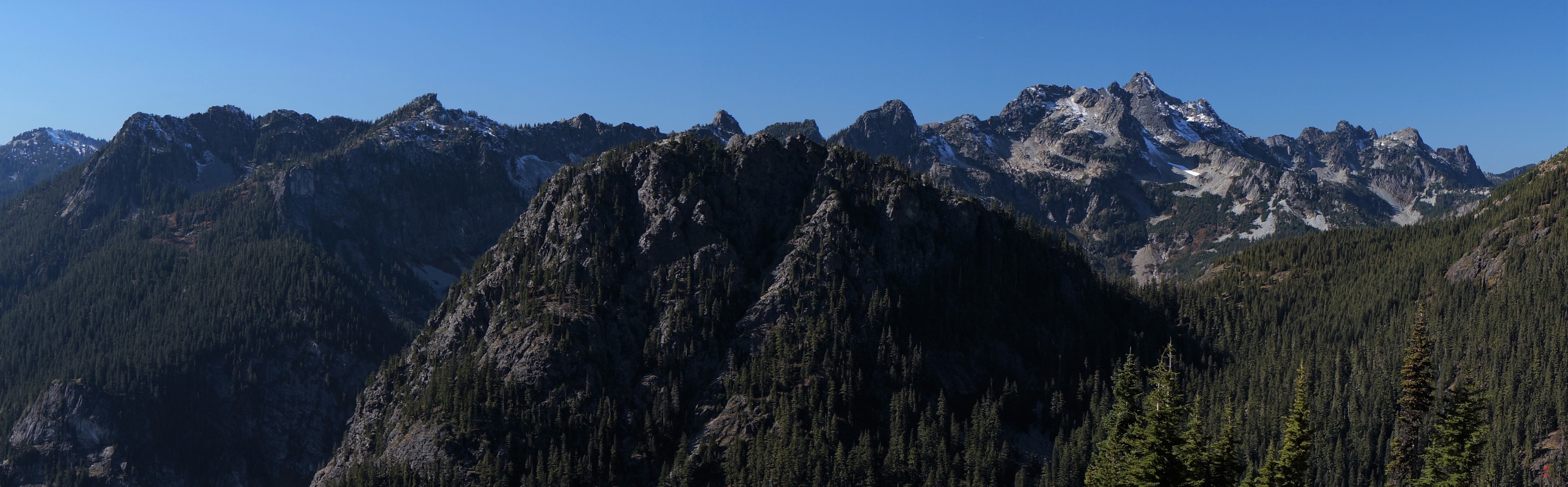 Panorama from the traverse below Kendall Peak. Guye Peak centered in front.